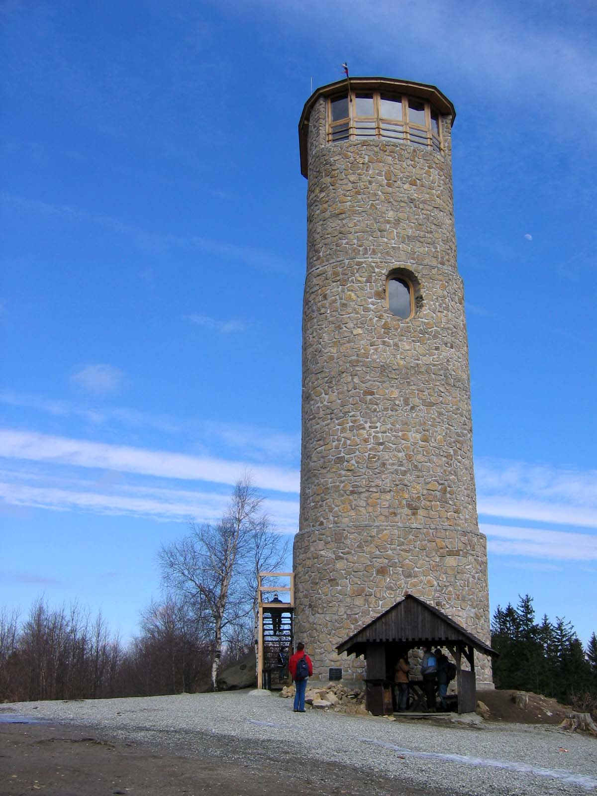 Lookout tower on the Brdo, Chřiby, Czech Republic.